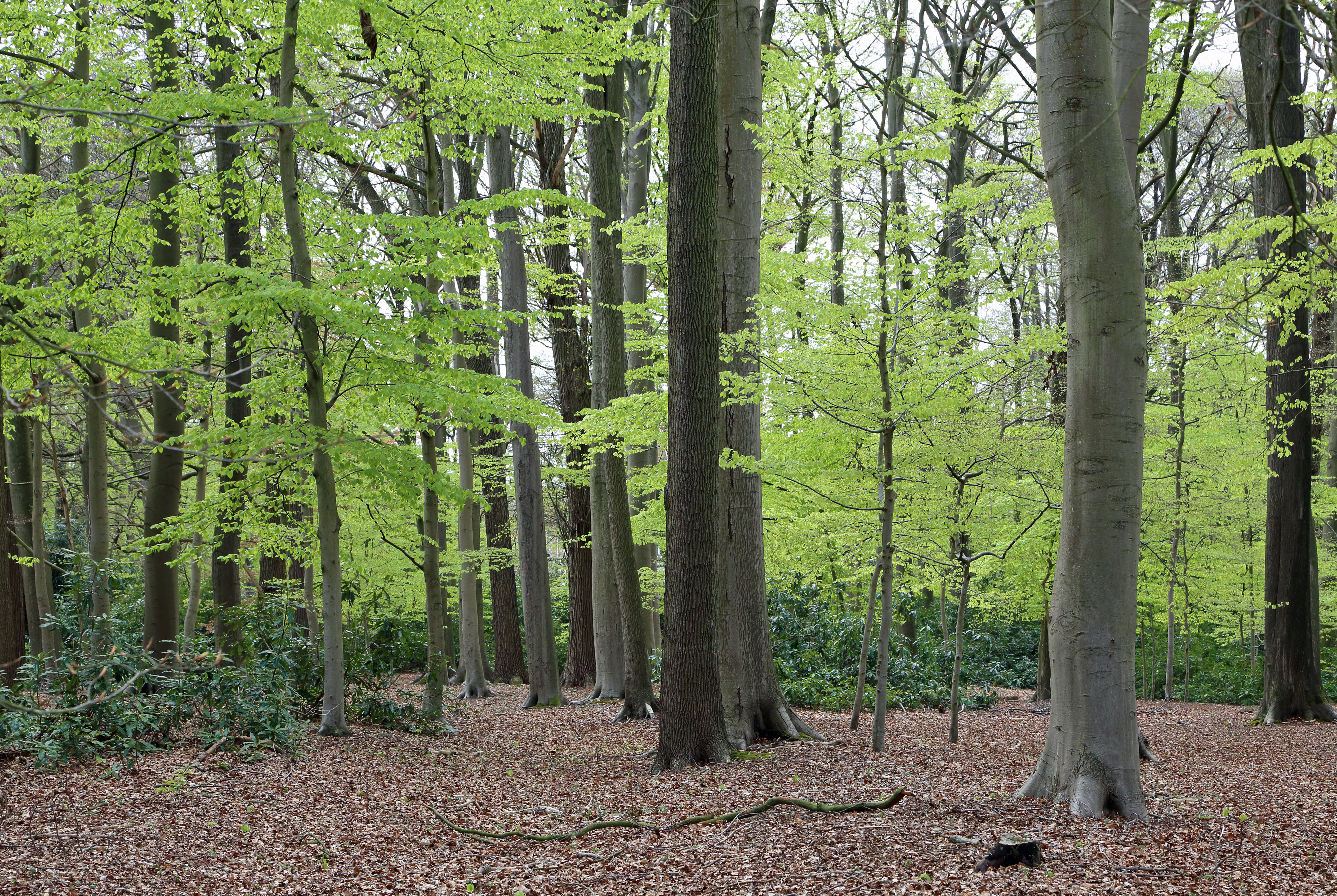 Maria-Aalter (municipality of Aalter, province of East Flanders, Belgium): castle domain Blekkervijver